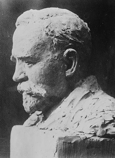 Bust of Soviet politician and Bolshevik revolutionary Lev Kamenev by British sculptor Clare Sheridan. Created in Moscow 1920.